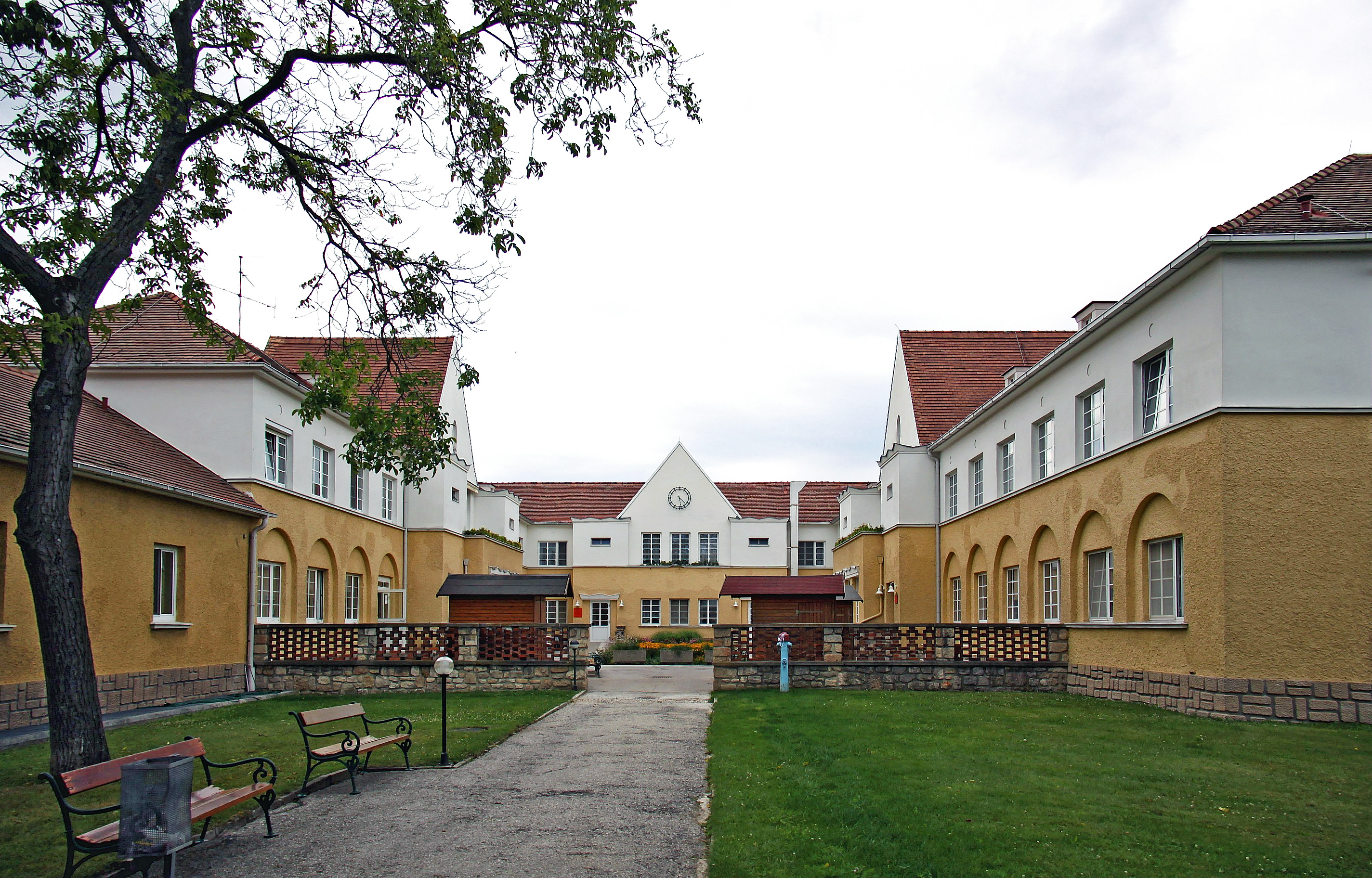 Nursing home and rehabilitation-center - Neudörfl Object location47° 48′ 06.86″ N, 16° 16′ 51.69″ E